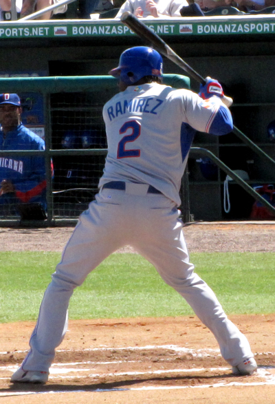 Description Hanley Ramirez batting for the Dominican Republic against the Florida Marlins. Date03/03/09SourceI created this work entirely by myself.AuthorRabbethan 23:34, 13 March 2009 . . Rabbethan . . 400×587 (241 KB) Hanley Ramirez batting for the Dominican Republic against the Florida Marlins.